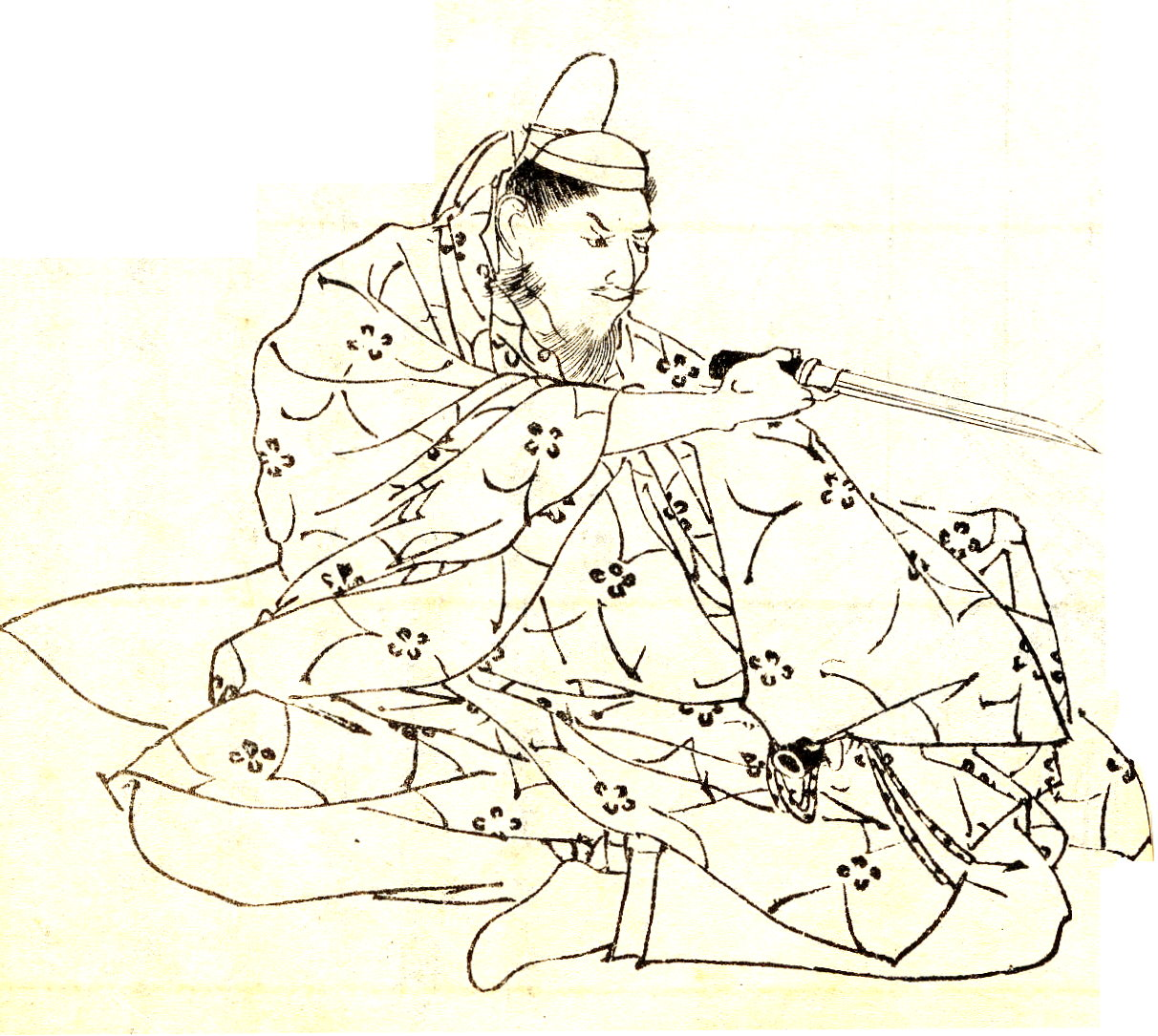 Taira no Tadamori (平忠盛) was a Taira clan samurai, father of Taira no Kiyomori.This picture was drawn by Kikuchi Yosai（菊池容斎） who was a painter in Japan.